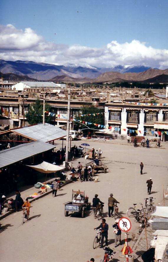 I took this photo in 1993. John Hill 06:18, 30 January 2007 (UTC)